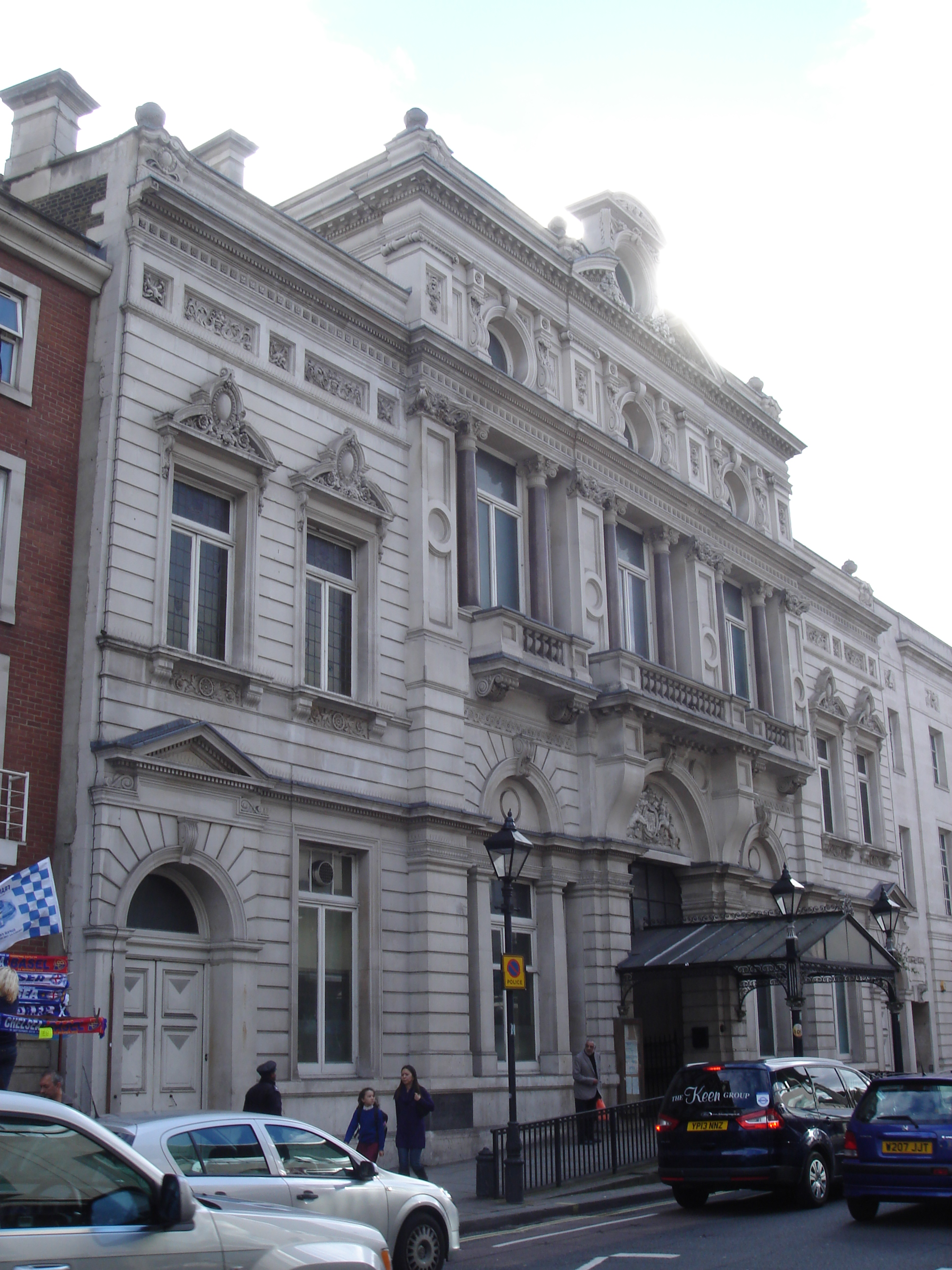 Fulham Town Hall (original Building and 1904-5 Extension)